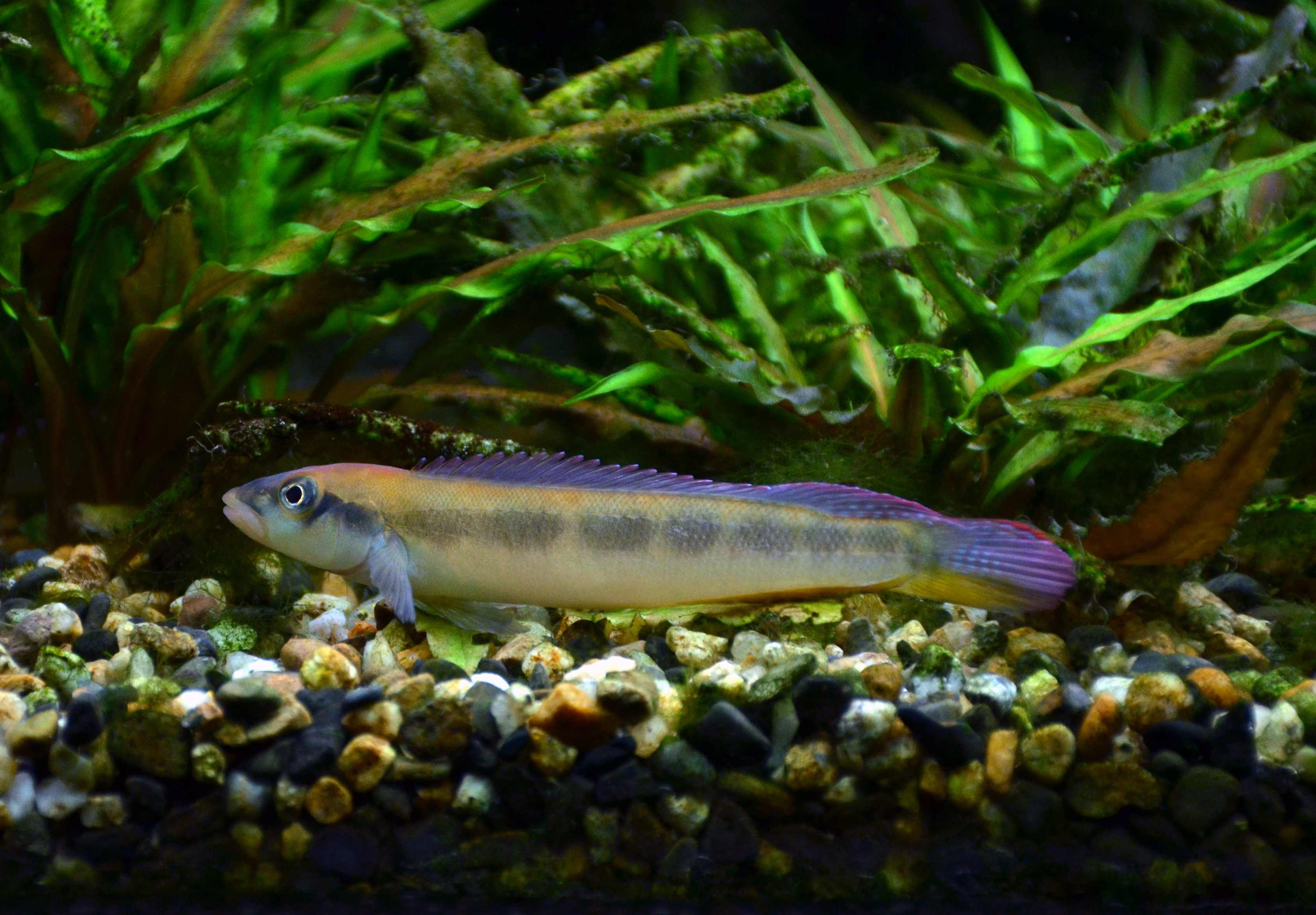 Dwarf pike cichlid ( Teleocichla prionogenys ). Aquarium tropical du Palais de la Porte Dorée, in Paris.